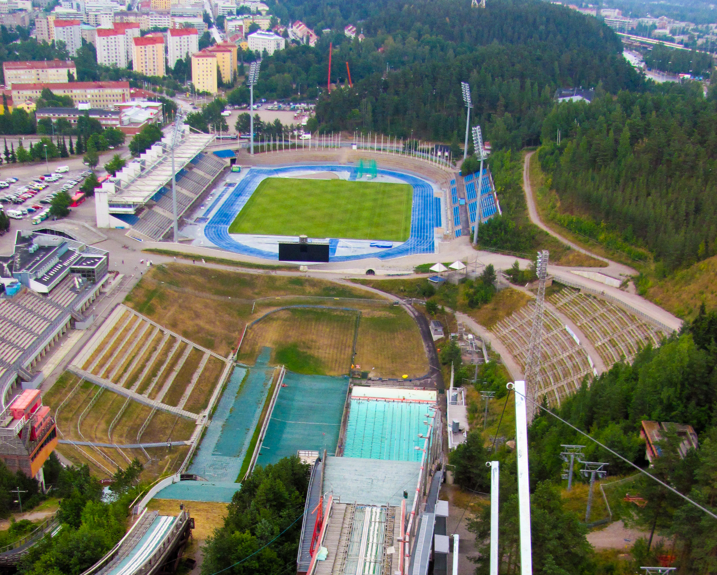 Lahden Stadion in Lahti, Finland, seen from the top of a ski jumping hill.